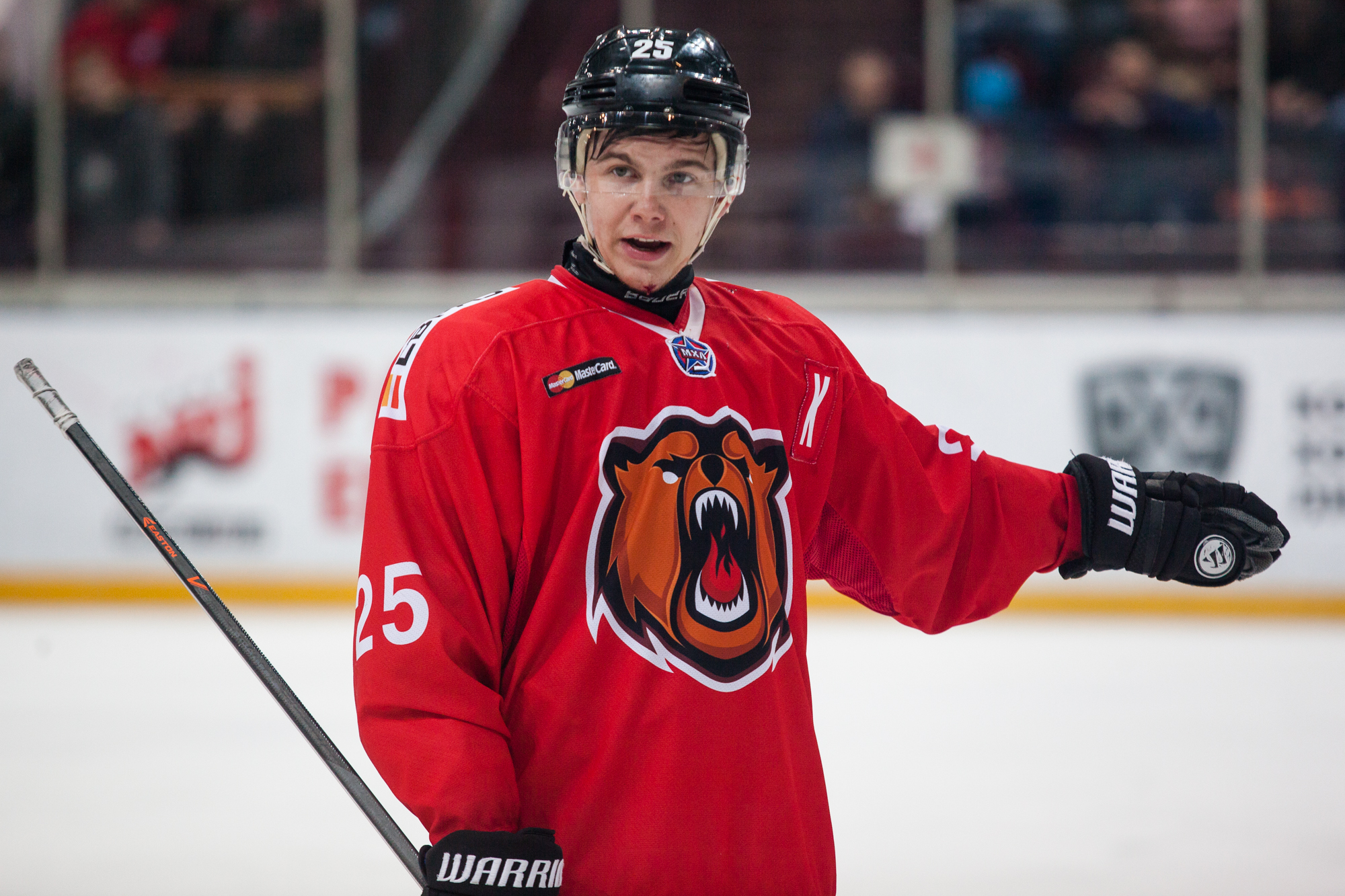 «Кузнецкие Медведи» на игре